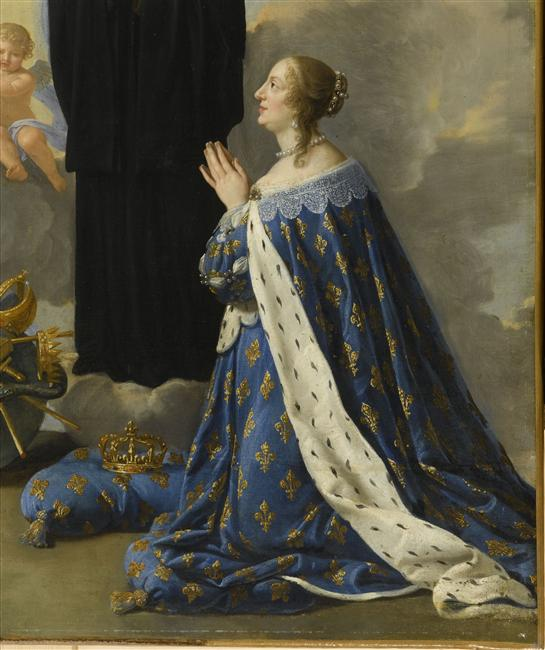 Anne of Austria with her children, praying to the Holy trinity with St-Benedict and his sister St-Scholastica (detail Queen Anne)